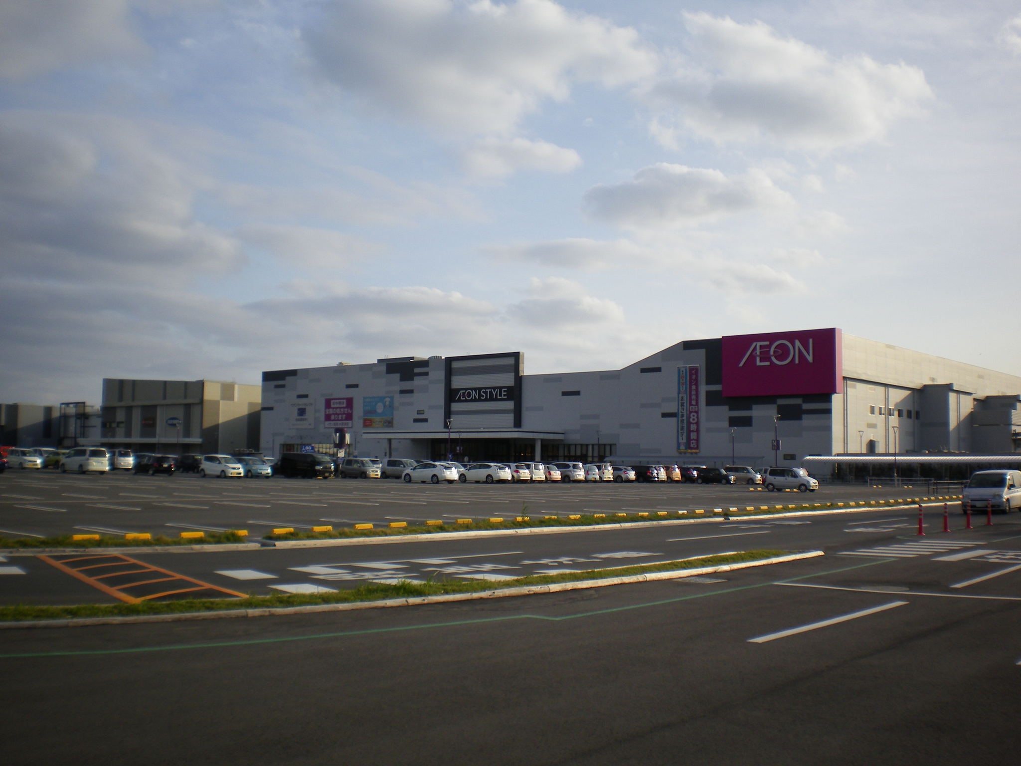 North whole view of AEON Mall Kisarazu.